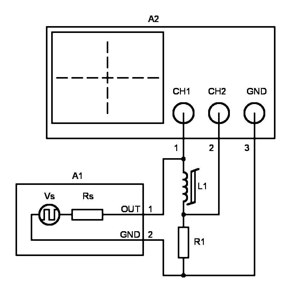 A simple setup for measuring magnetization and saturation of a reactor. The component L1 is the measured saturable reactor.